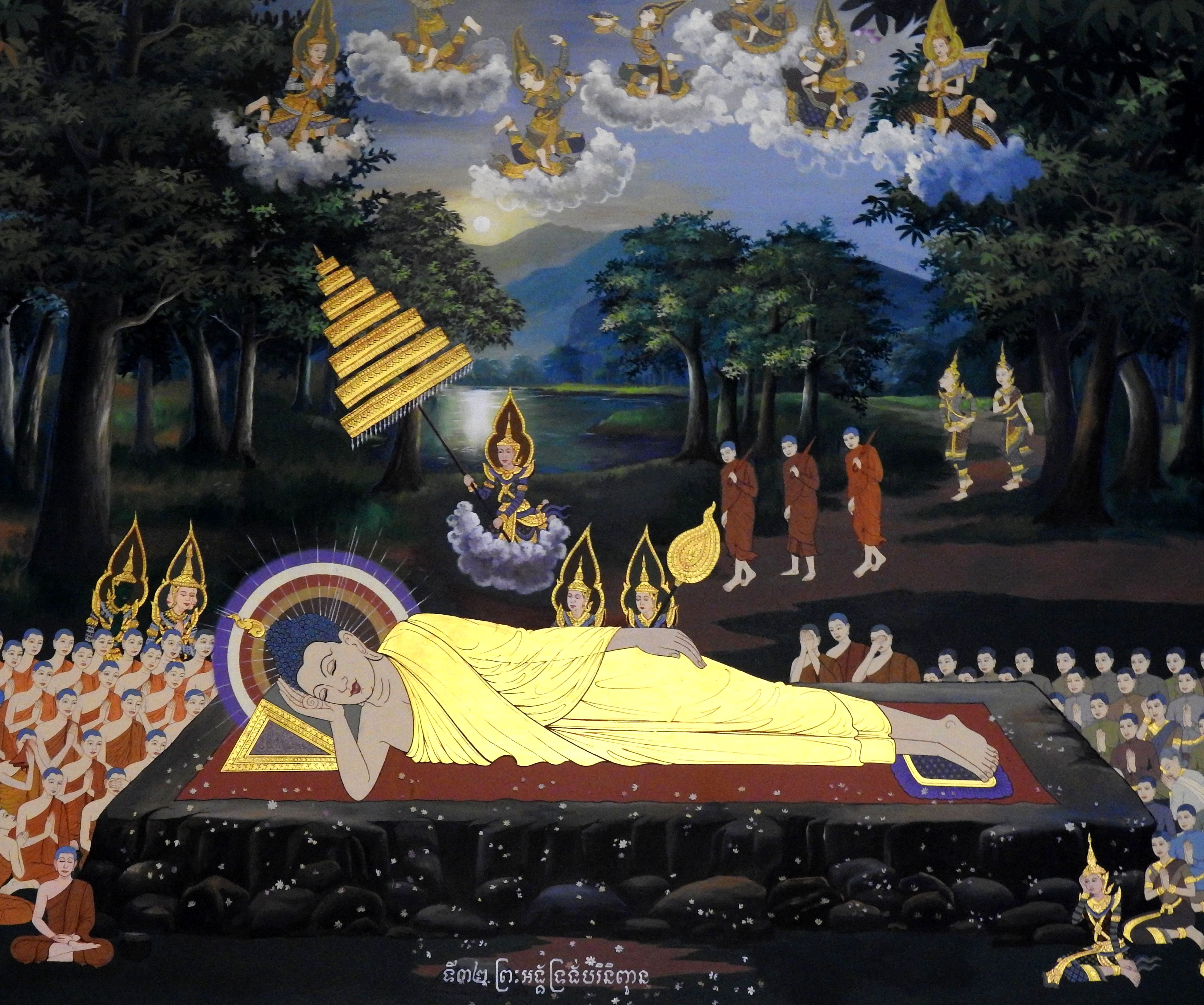 Khmer traditional mural painting depicts Gautama Buddha gains nirvana in dharma hall, wat Botum Wattey Reacheveraram, Phnom Penh, Cambodia.